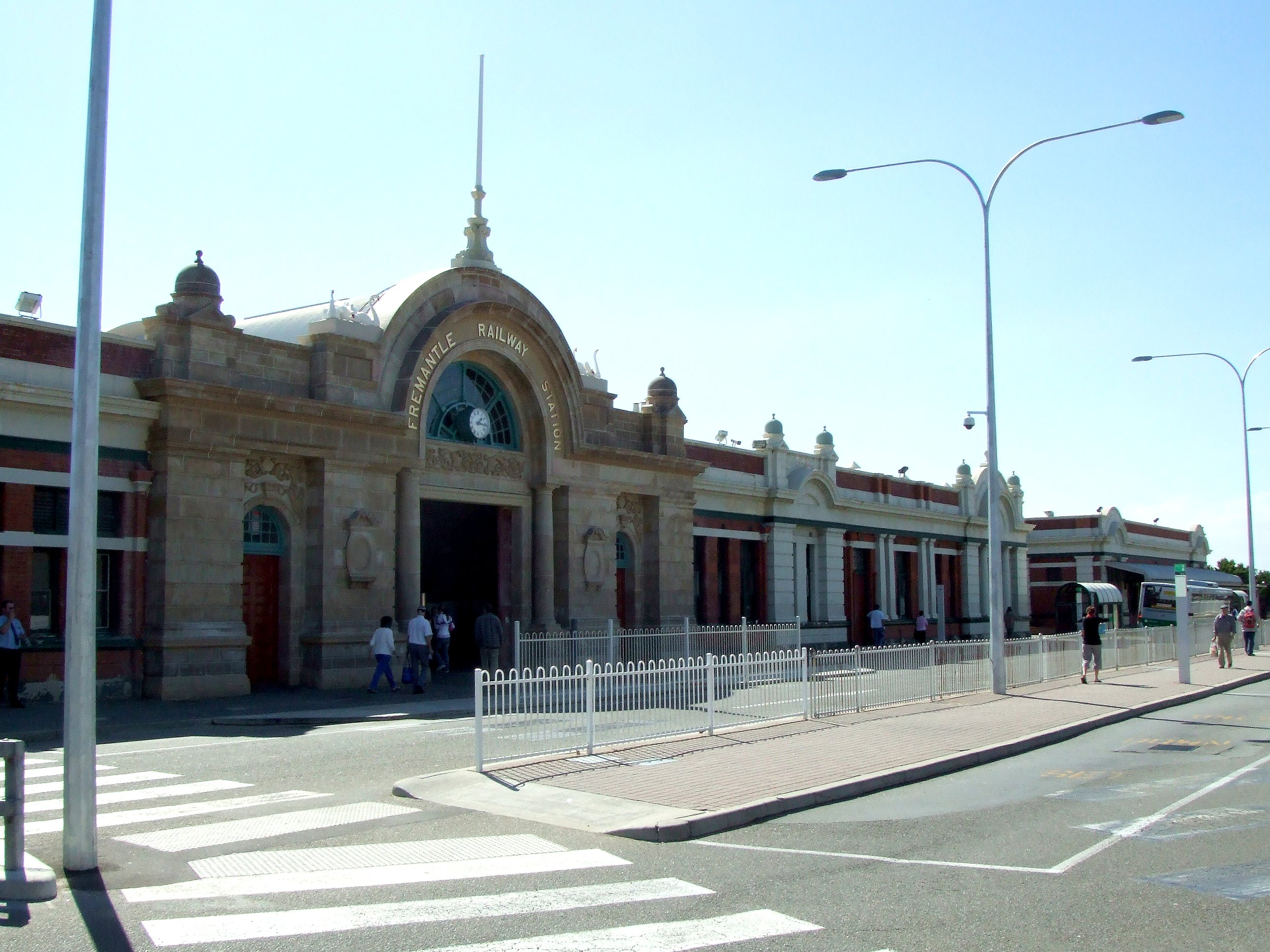 Fremantle railway station, 04/06.